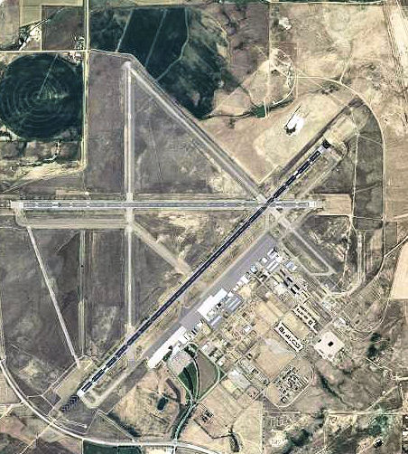 USGS digital orthophoto of Casper-Natrona County International Airport in Wyoming